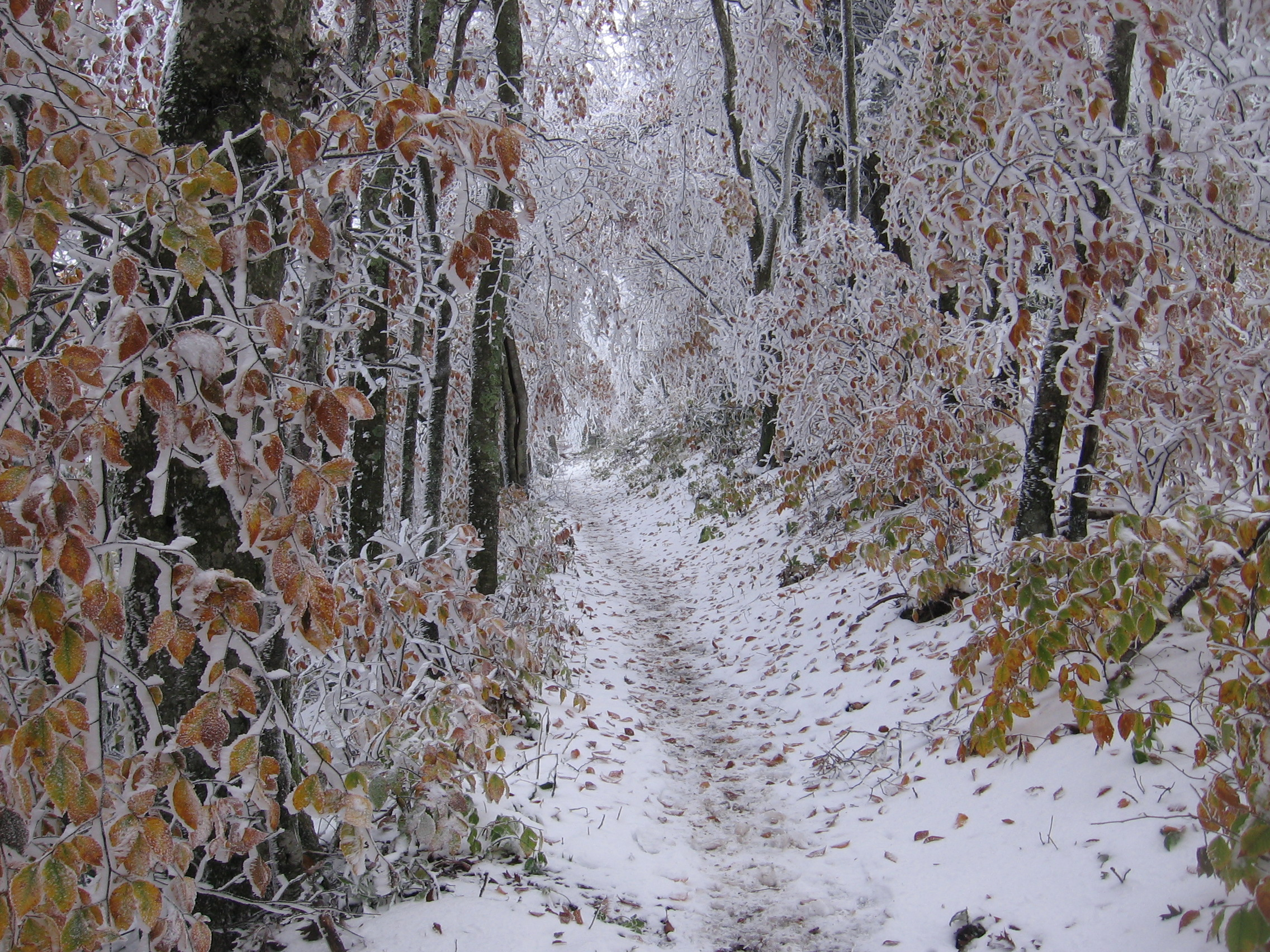 Mount Cammerer Trail with heavily Rimed trees — Great Smoky Mountains, Appalachia.